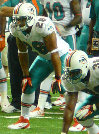 If used somewhere other than Wikipedia, Nelson, by name.